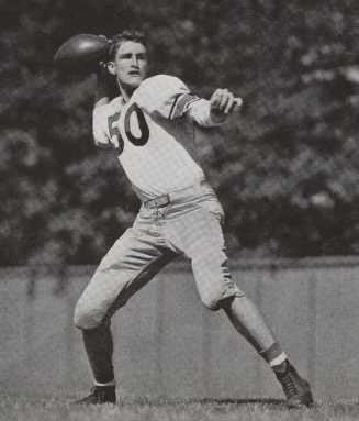 Photograph of Purdue football player Bob DeMoss